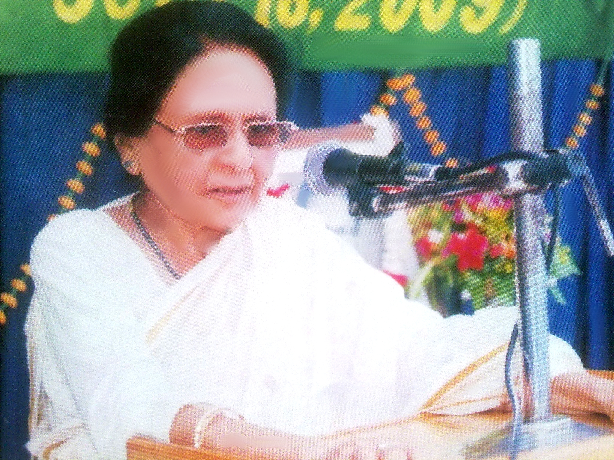 Late Mrs. Saeeda Faiz speaking on Inauguration day of the Silver Jubilee of Shah Faiz Public School, Ghazipur(2009).